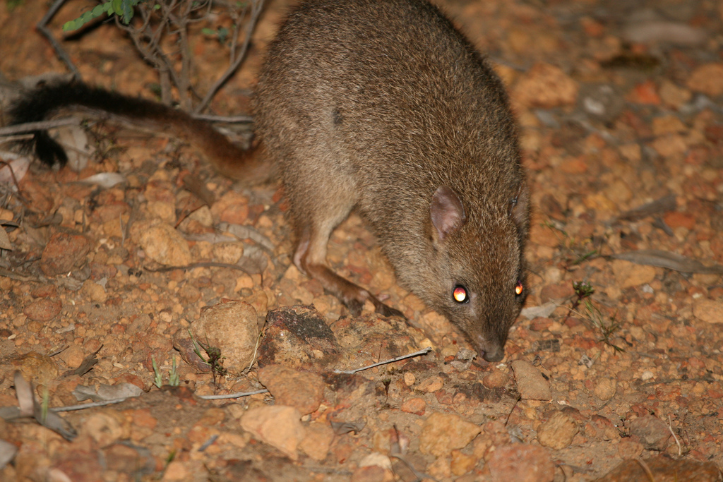 Bettongia_penicillata_(Woylie)